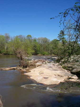 View of Lanier Falls swollen with spring runoff. Taken from the end of the Lanier Falls Trail at Raven Rock State Park, NC.